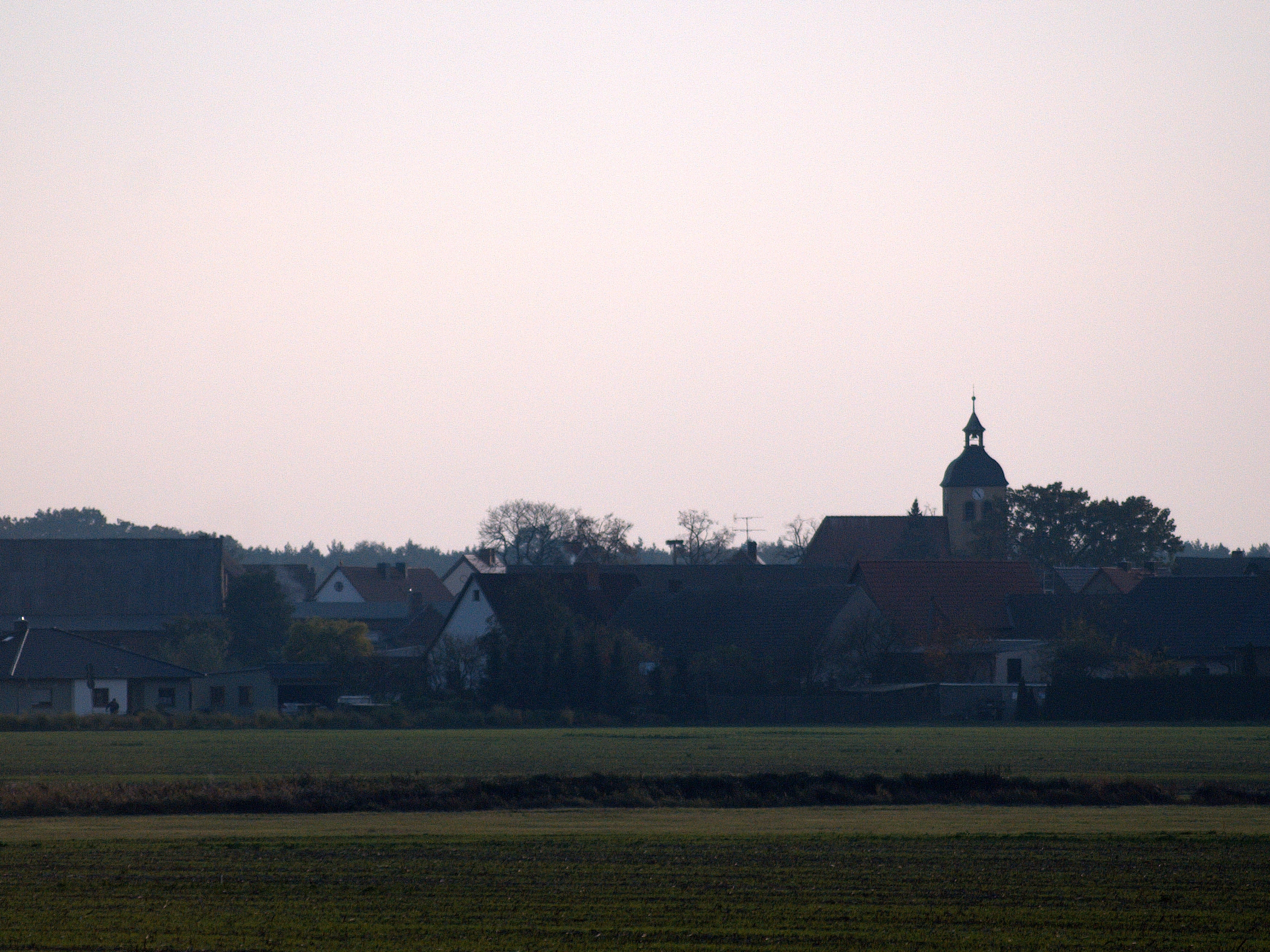 Panorama of the village Selbitz.